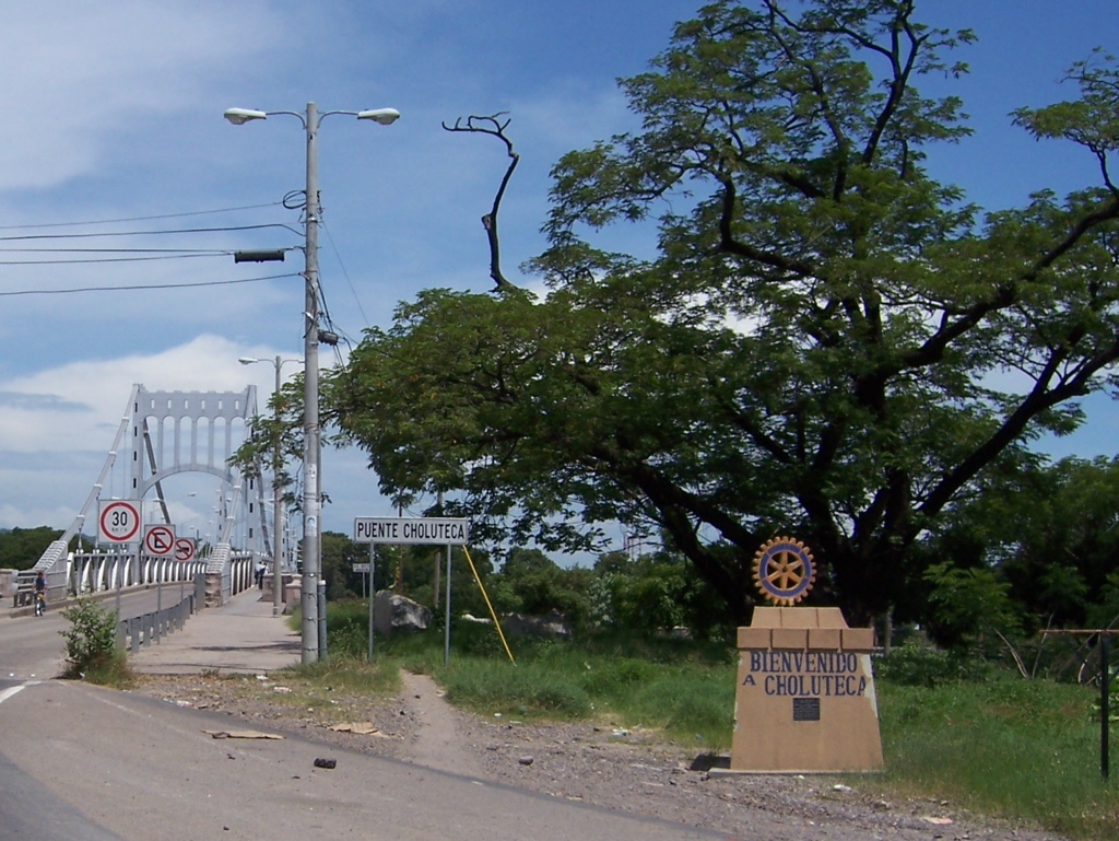 Entrance to Choluteca from the north on the Pan-American Highway. The Bridge of Choluteca crosses the Choluteca River here. Choluteca city is a municipality in the Honduran department of Choluteca. By Brandon Bigam on June 22, 2006, released into the public domain.